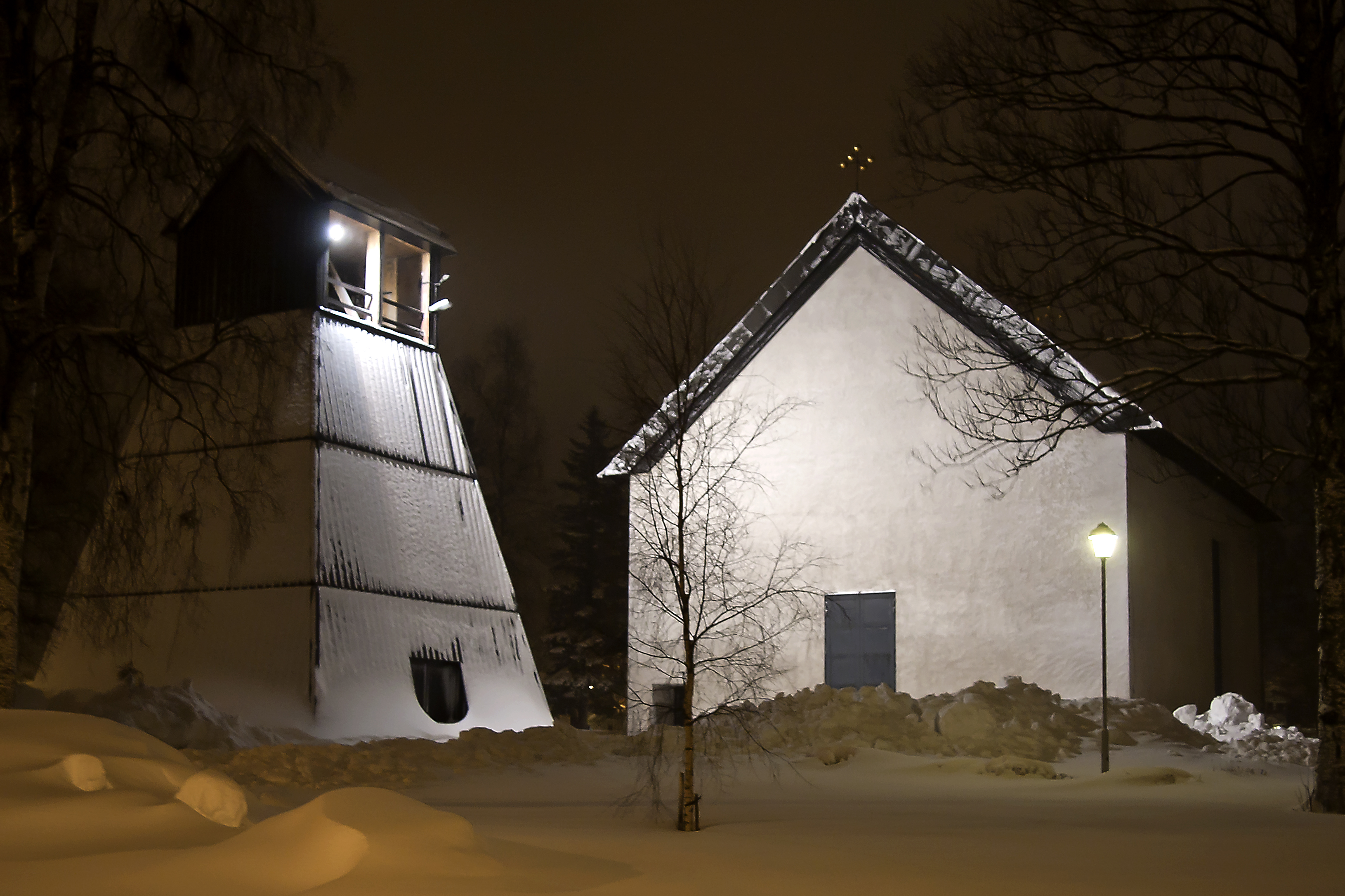 Boliden church, Sweden, in January.